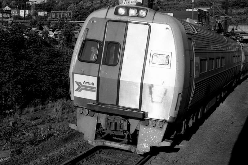 A southbound Amtrak Metroliner train emerging from the North River Tunnels in June 1972